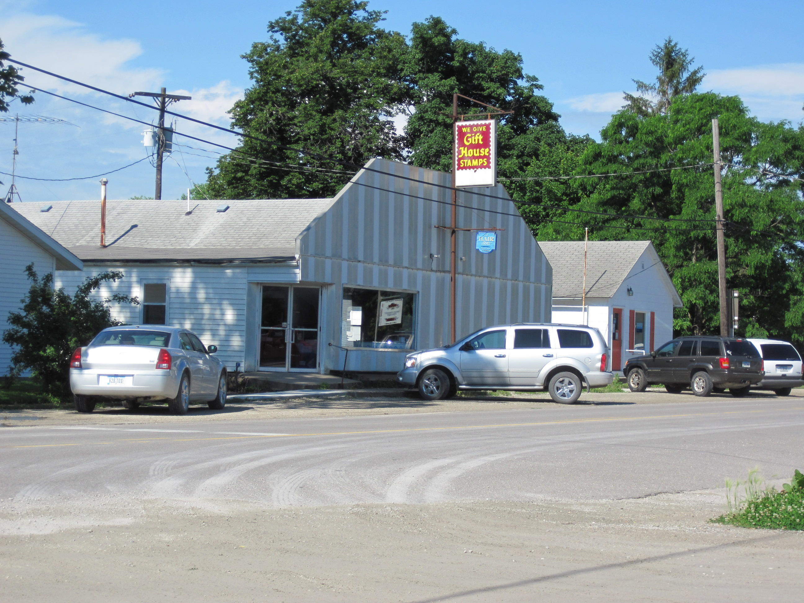 Denmark Bill Whittaker (talk) 19:46, 24 June 2009 (UTC)